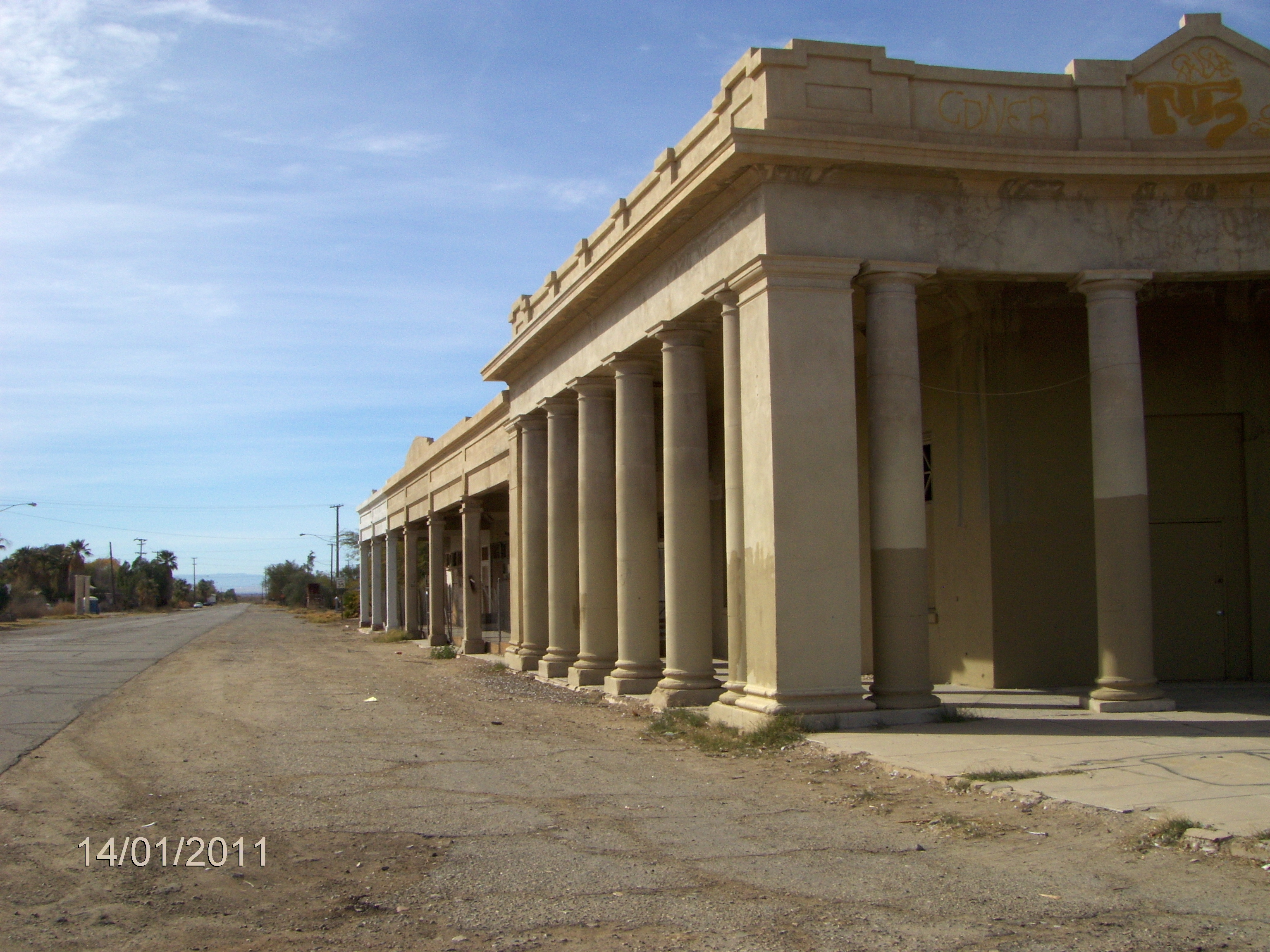 NILAND, CALIFORNIA, OLD COMMERCIAL BUILDING DOWNTOWN